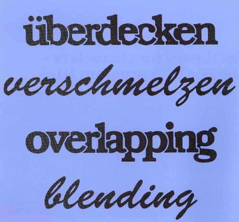 typeface variations in the Signus-system